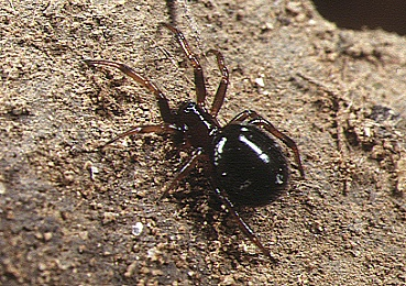 female Steatoda erigoniformis from Okinawa.